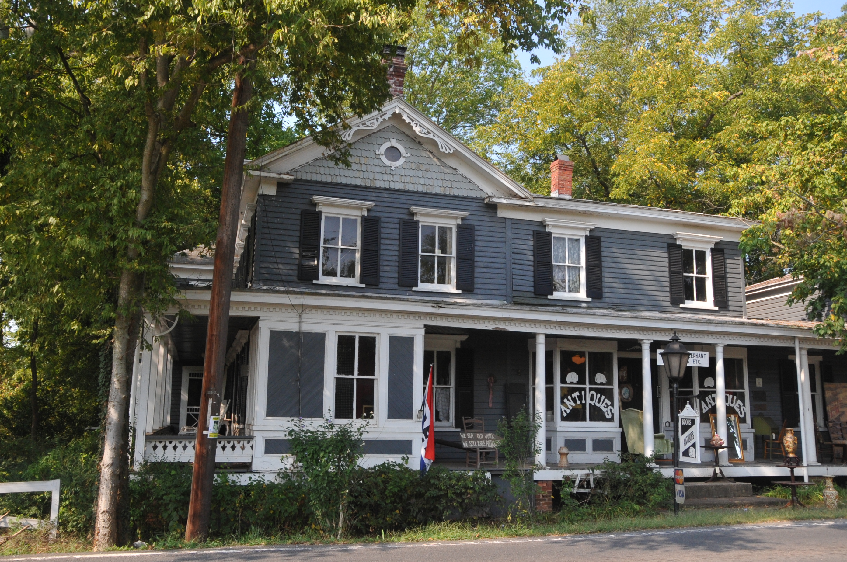 BRISTOW; FINEST AND MOST ELABORATELY DETAILED EXAMPLE OF A LATE VICTORIAN GENERAL STORE AND MERCHANT'S QUARTERS EXTANT IN PRINCE WILLIAM COUNTY. BUILT SHORTLY AFTER THE CIVIL WAR ALONG THE RAILROAD CROSSING